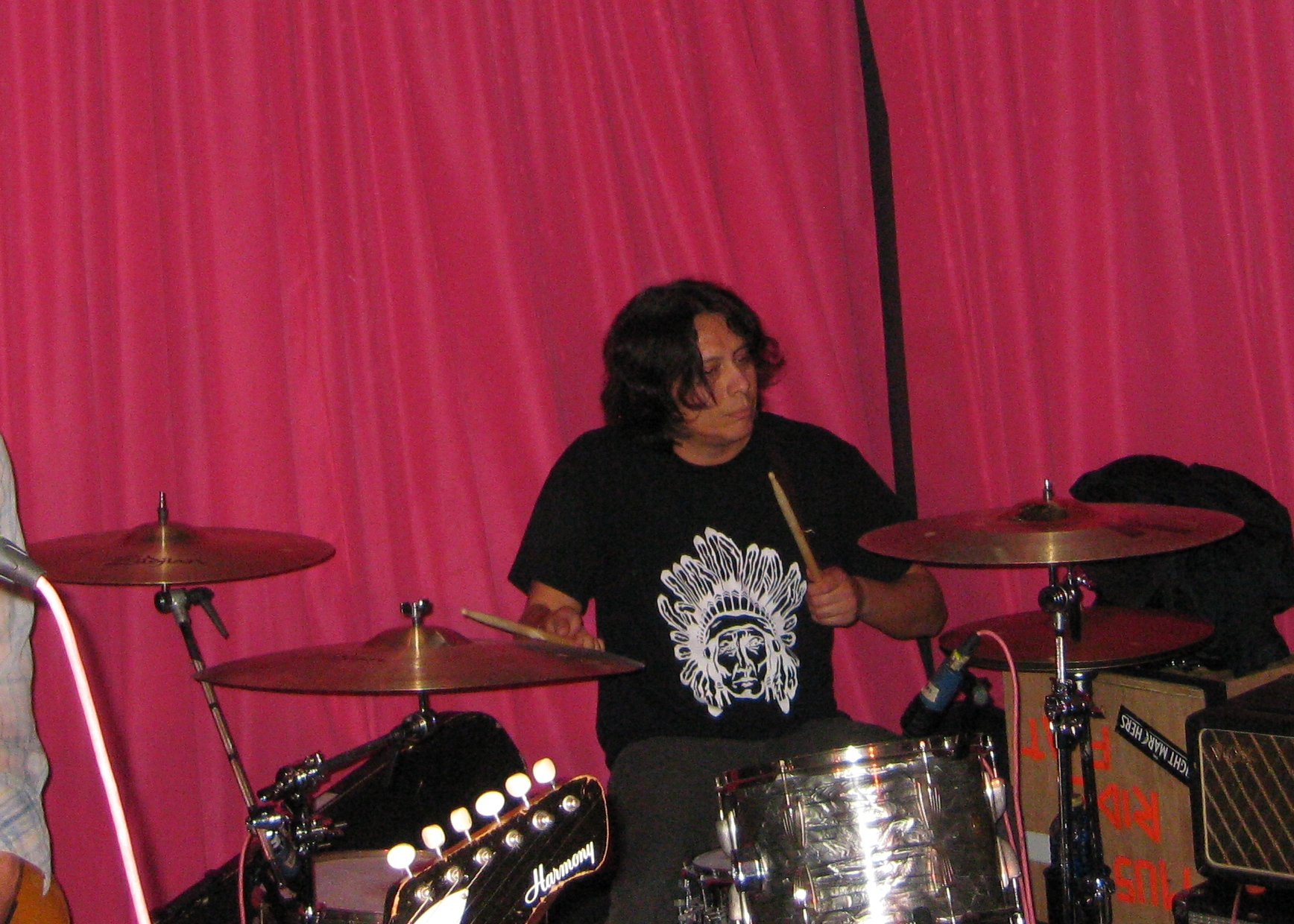 Drummer Mario Rubalcaba of Hot Snakes performing November 4, 2011 at Bar Pink in San Diego, California.